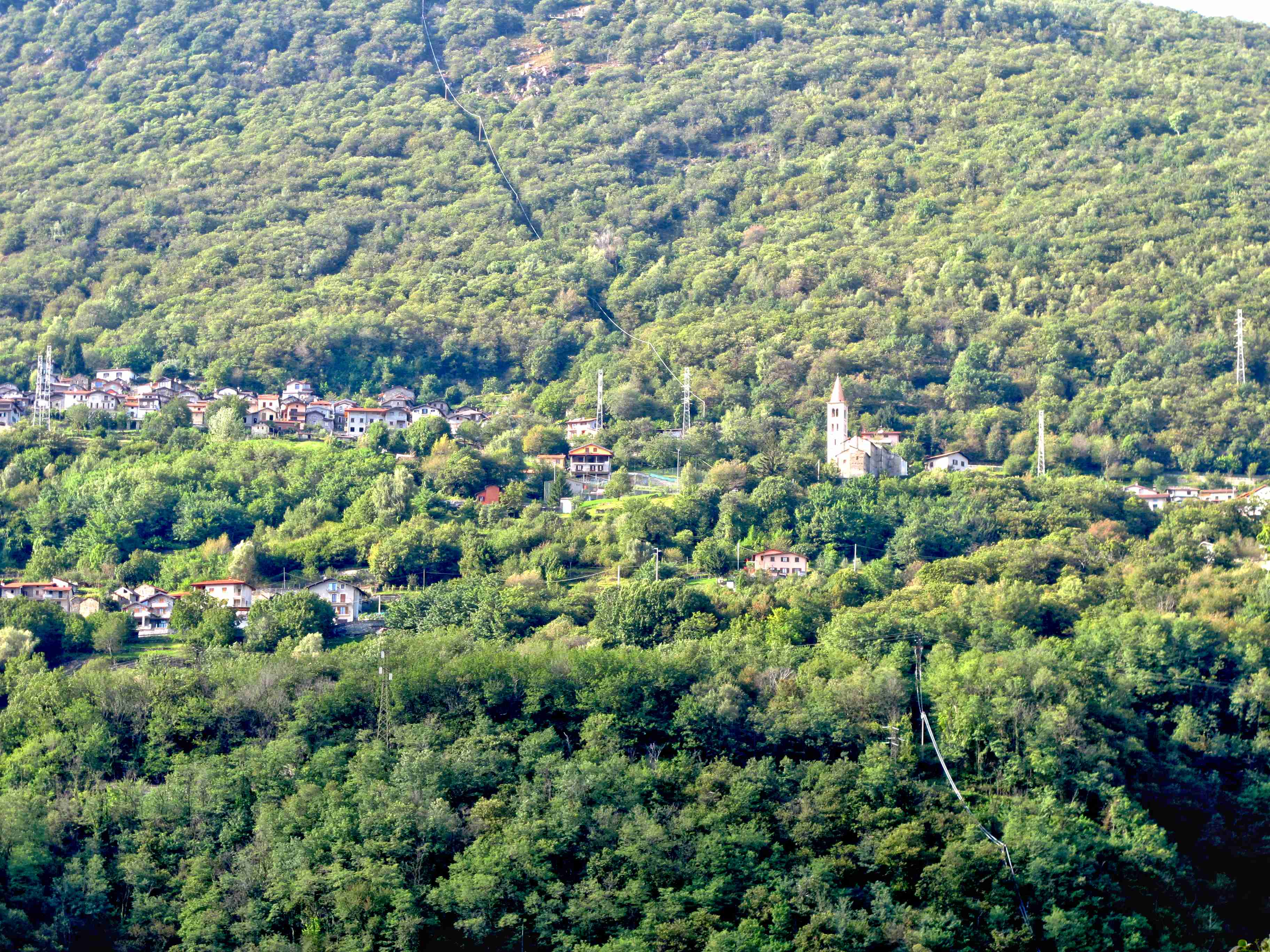 Italy, Lombardy, Montemezzo